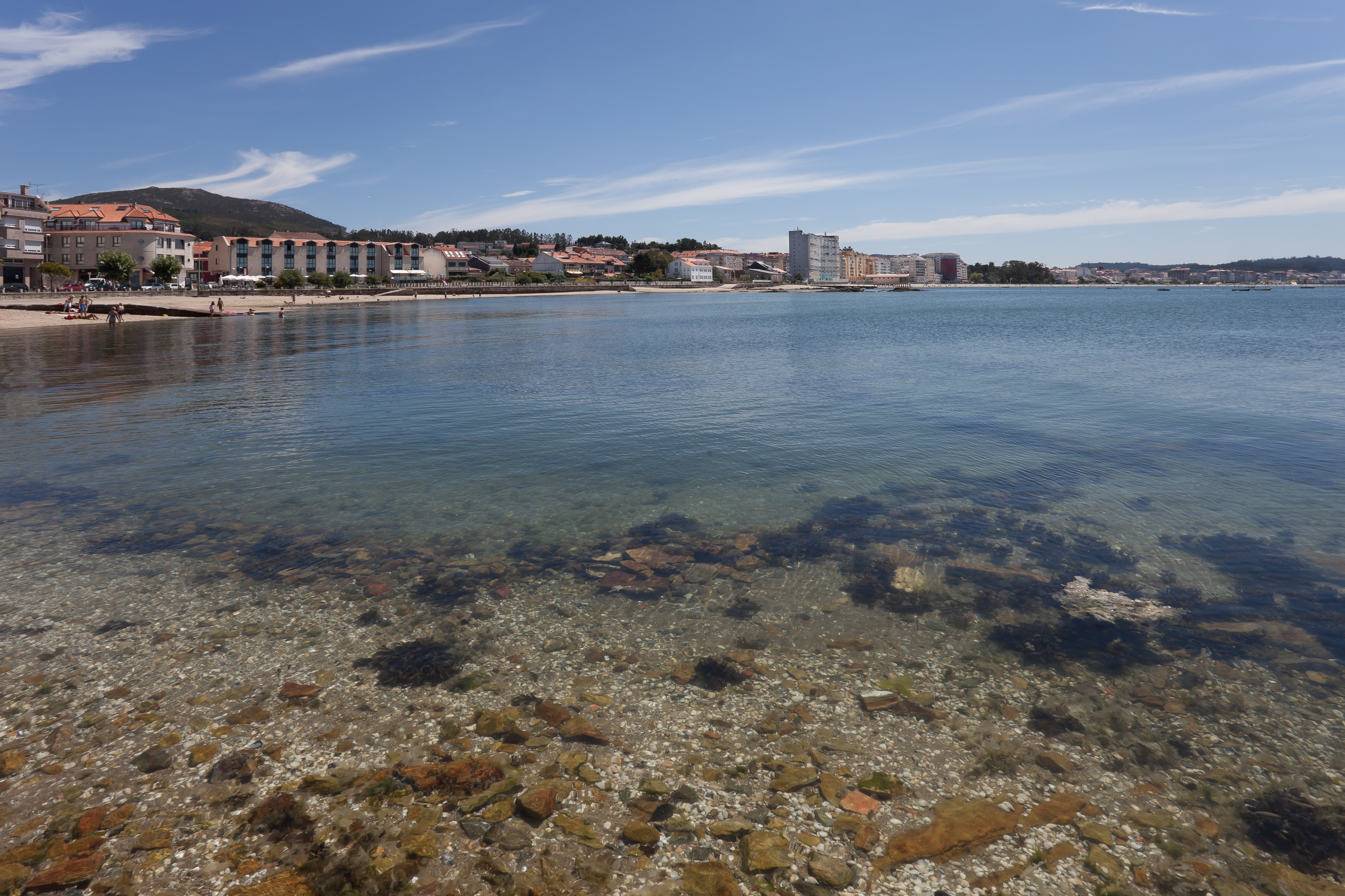 Beach of Portugalete and beach Compostela, O Carril, Vilagarcía de Arousa, Galicia, SpainGalego: Praia de Portugalete e praia Compostela, O Carril, Vilagarcía de Arousa, Galicia